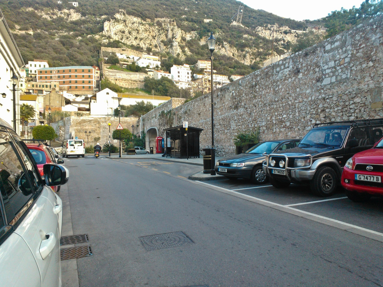 Site by Southport Gates in Gibraltar where three members of the IRA were planning on detonating a car bomb during a military parade in 1988.